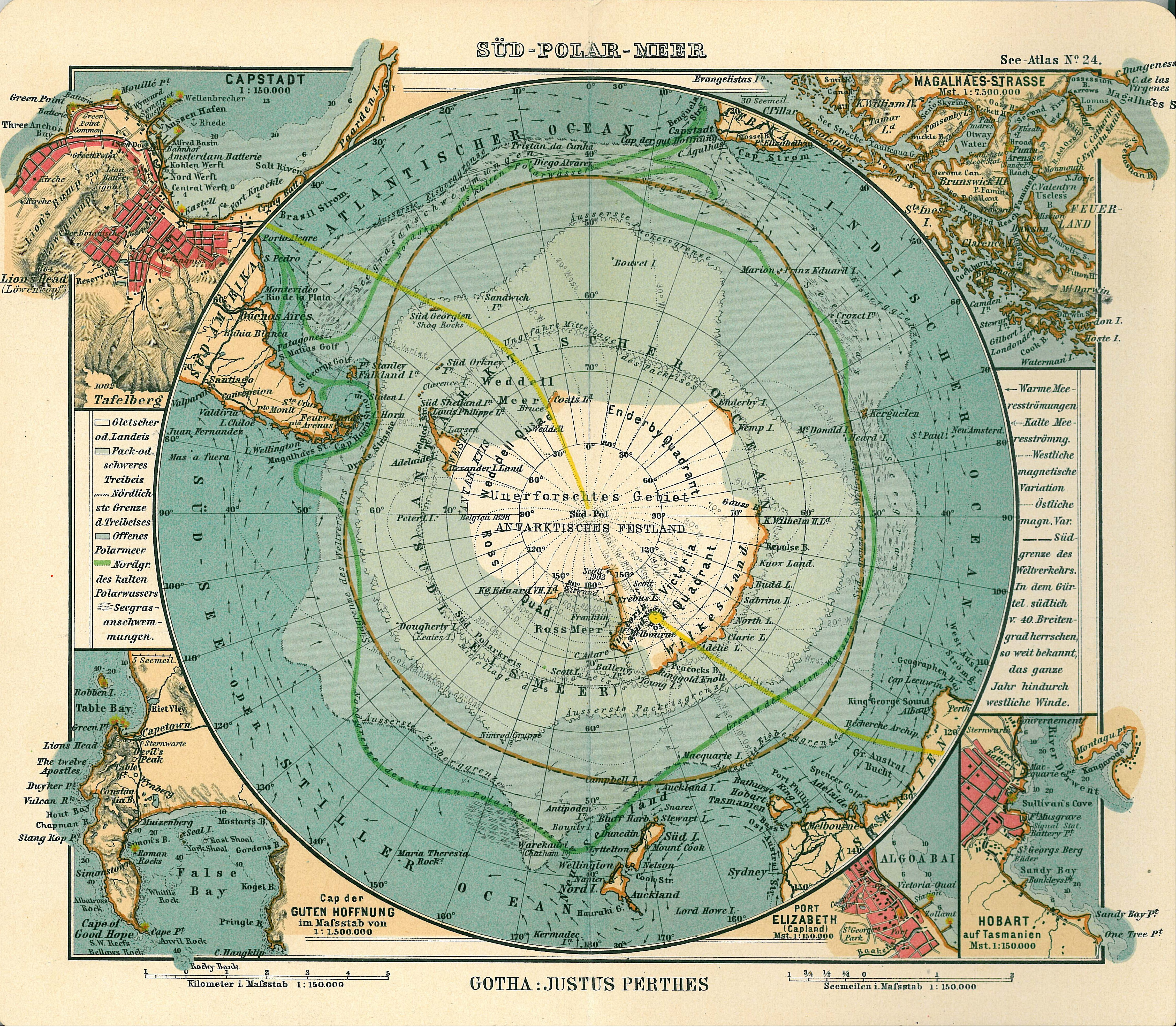 Page 24, Antarctica, Inset maps of Cape town, Cape of good hope, Magalhaes strait, Hobart, Port Elizabeth